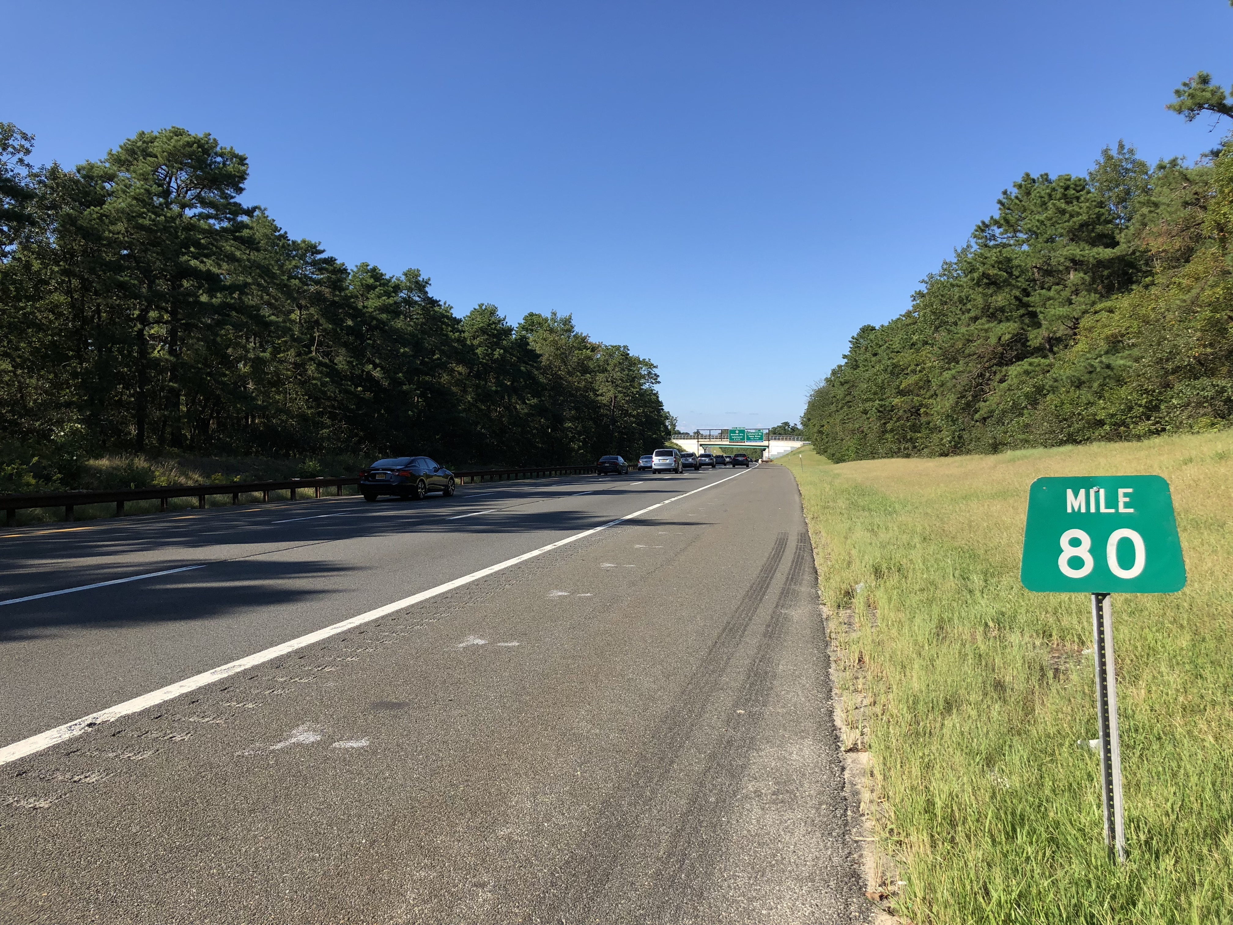 View north along New Jersey State Route 444 (Garden State Parkway) between Exit 77 and Exit 81 in Beachwood, Ocean County, New Jersey